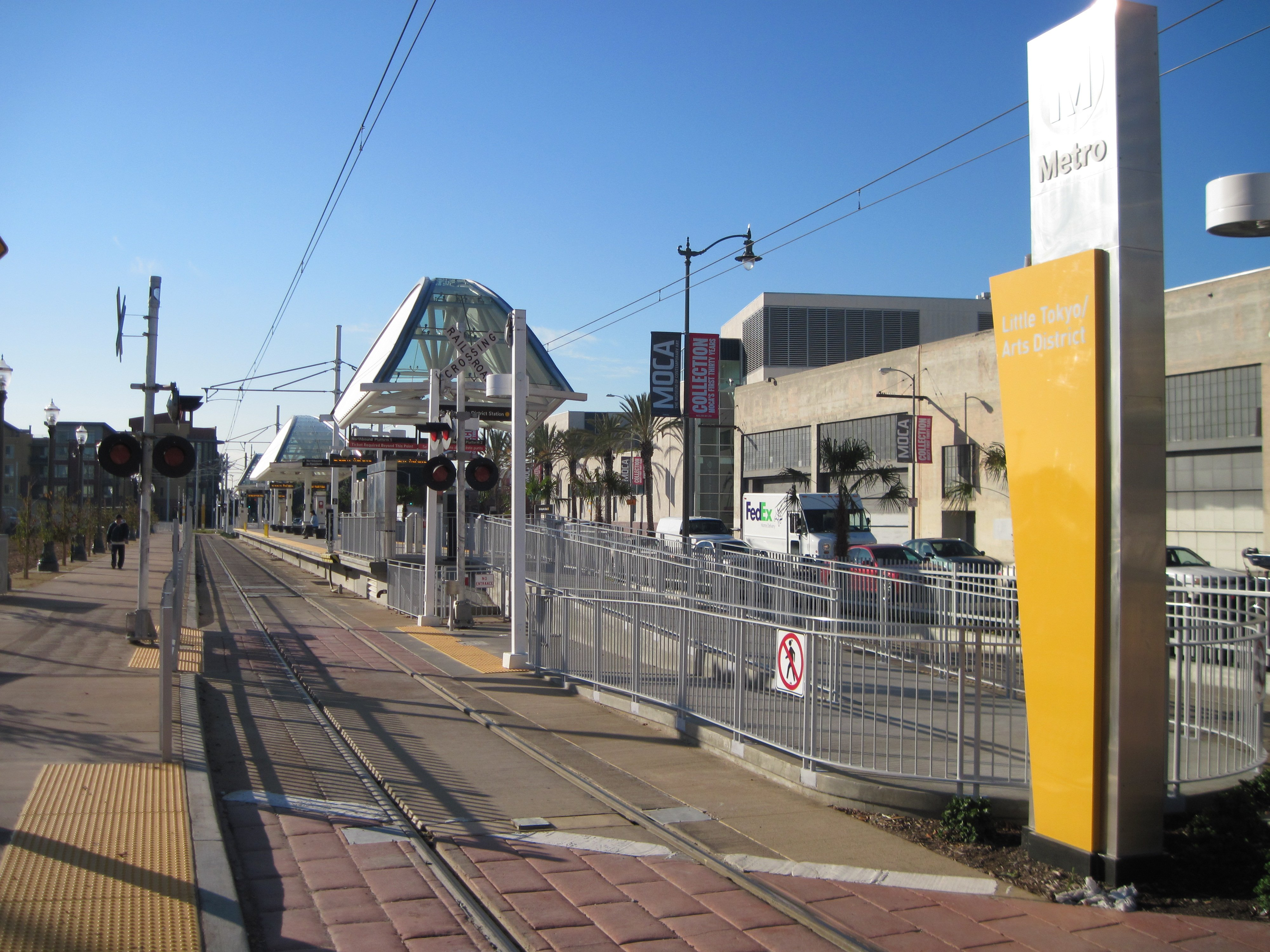 The Los Angeles County Metropolitan Transportation Authority's Little Tokyo/Arts District station, serving Metro Gold Line trains in Los Angeles, California, USA.